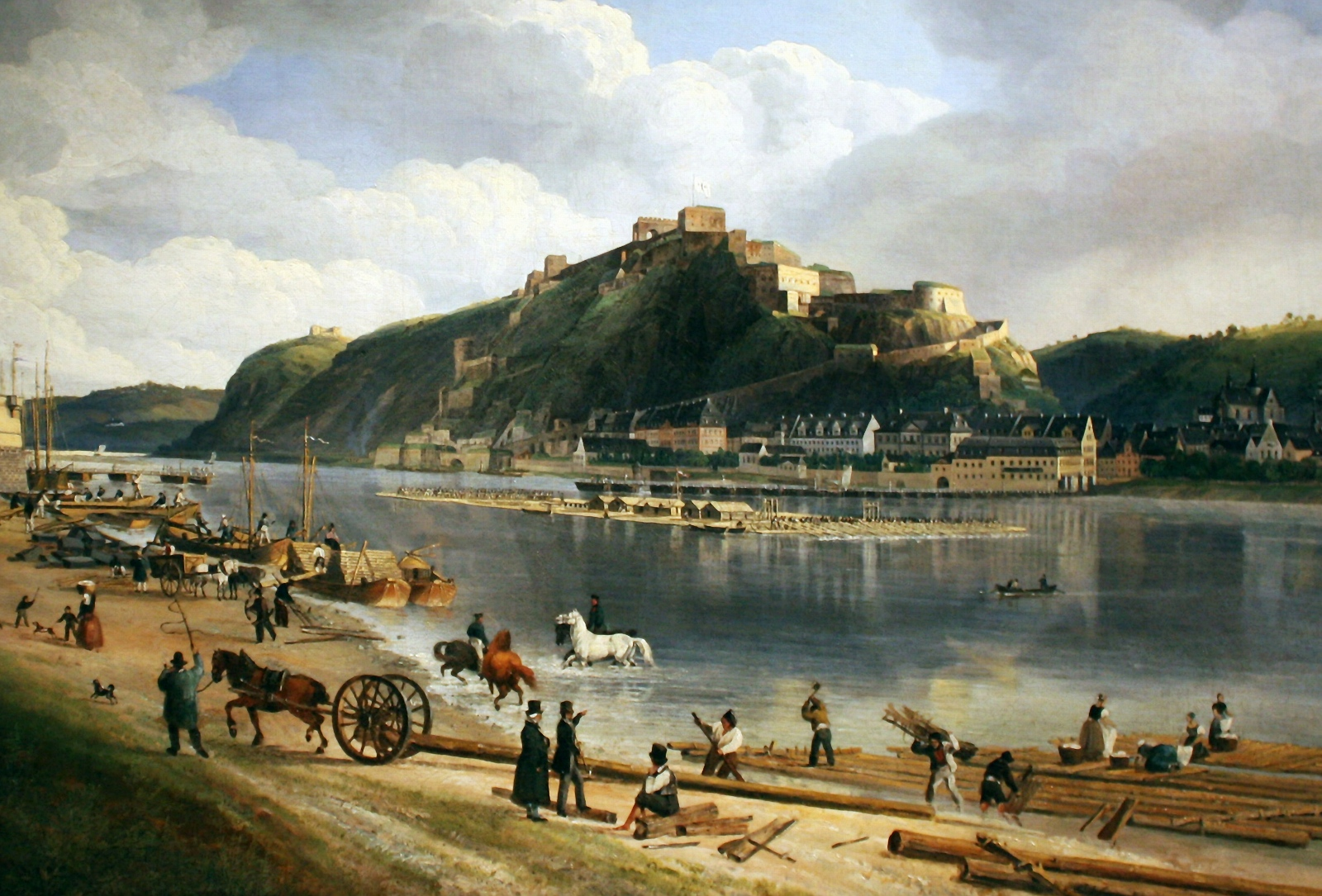 Johann Adolf Lasinsky: Koblenz-Ehrenbreitstein, 1828 (crop)